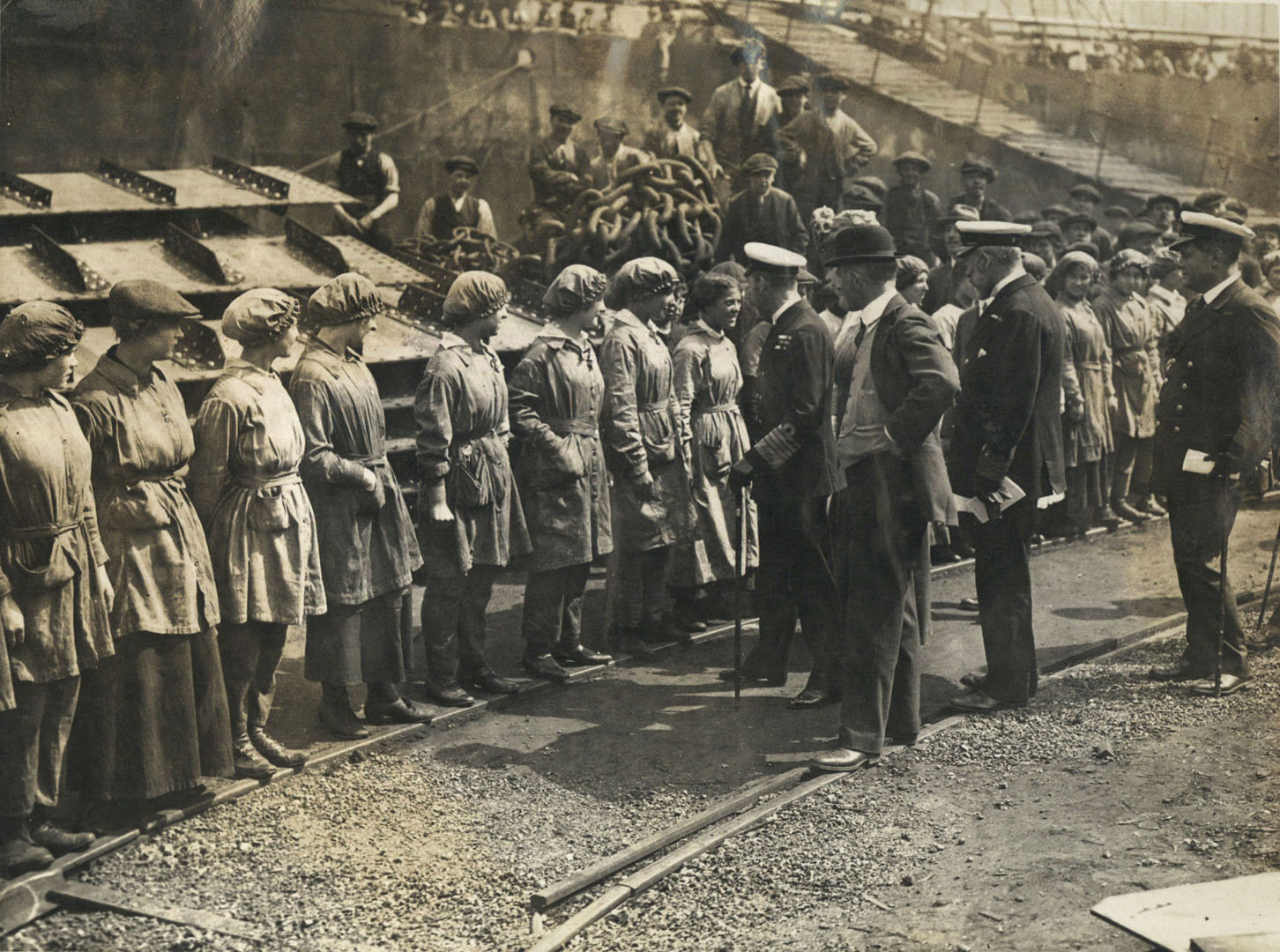 This is a Photograph of King George V meeting women working at the shipyard of Sir James Laing & Sons Ltd, Deptford, 15 June 1917. Reference: DS.LG/5/1/1 pg127a On 22 November Prince William will be visiting Sunderland and South Tyneside to take part in a number of youth development events. During the visit he will also officially open Haven Point, the new leisure centre in South Shields. To celebrate this Tyne & Wear Archives has produced a short flickr set remembering past royal visits to the region’s shipyards. Most of the visits featured here took place during difficult times and they gave a real boost to public spirits in the face of two World Wars. A short blog relating to these images can be read . These images are part of the Tyne & Wear Archives Shipyard Collection. In July 2013 the outstanding historical significance of the Collection was recognised by UNESCO through its inscription to the UK Memory of the World Register. (Copyright) We're happy for you to share these digital images within the spirit of The Commons. Please cite 'Tyne & Wear Archives & Museums' when reusing. Certain restrictions on high quality reproductions and commercial use of the original physical version apply though; if you're unsure please